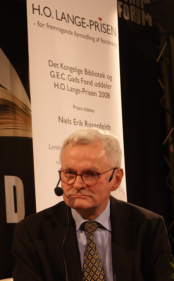 Niels Erik Rosenfeldt, Danish historian, receives H.O. Lange-Prisen 2008.